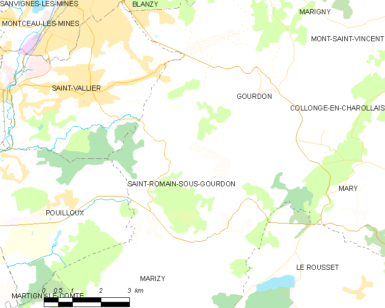 Map of French municipality